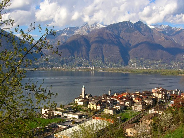 View on Vira (Gambarogno) (Switzerland/Ticino) picture taken by user:Idéfix april, 16, 2006